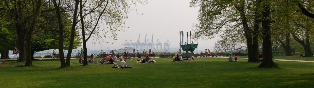 View from "Altonaer Balkon" (Altona Balcony) over the Port of Hamburg, Germany